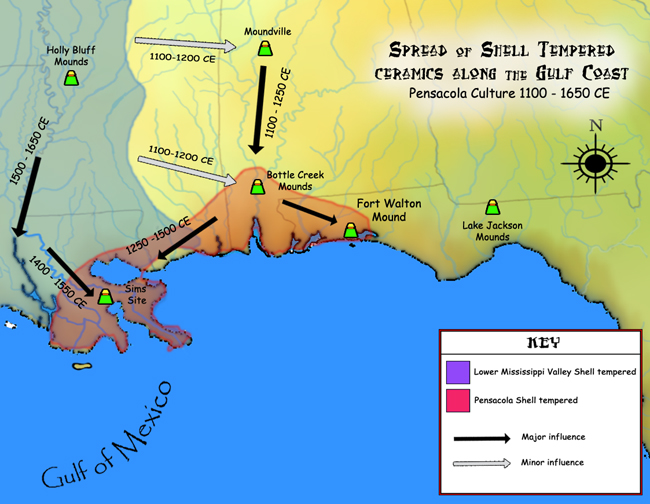 A map showing the spread of shell tempering in Mississippian culture ceramics on the US Gulf Coast from 1100 to 1650 CE. Blue field to the left represents the Plaquemine Mississippian culture area and the red field represents the Pensacola culture spread of shell tempering and purple where they overlap. Important sites marked include the Holly Bluff Site, Moundville Archaeological Site, Bottle Creek Indian Mounds, and Fort Walton Mound.[1]